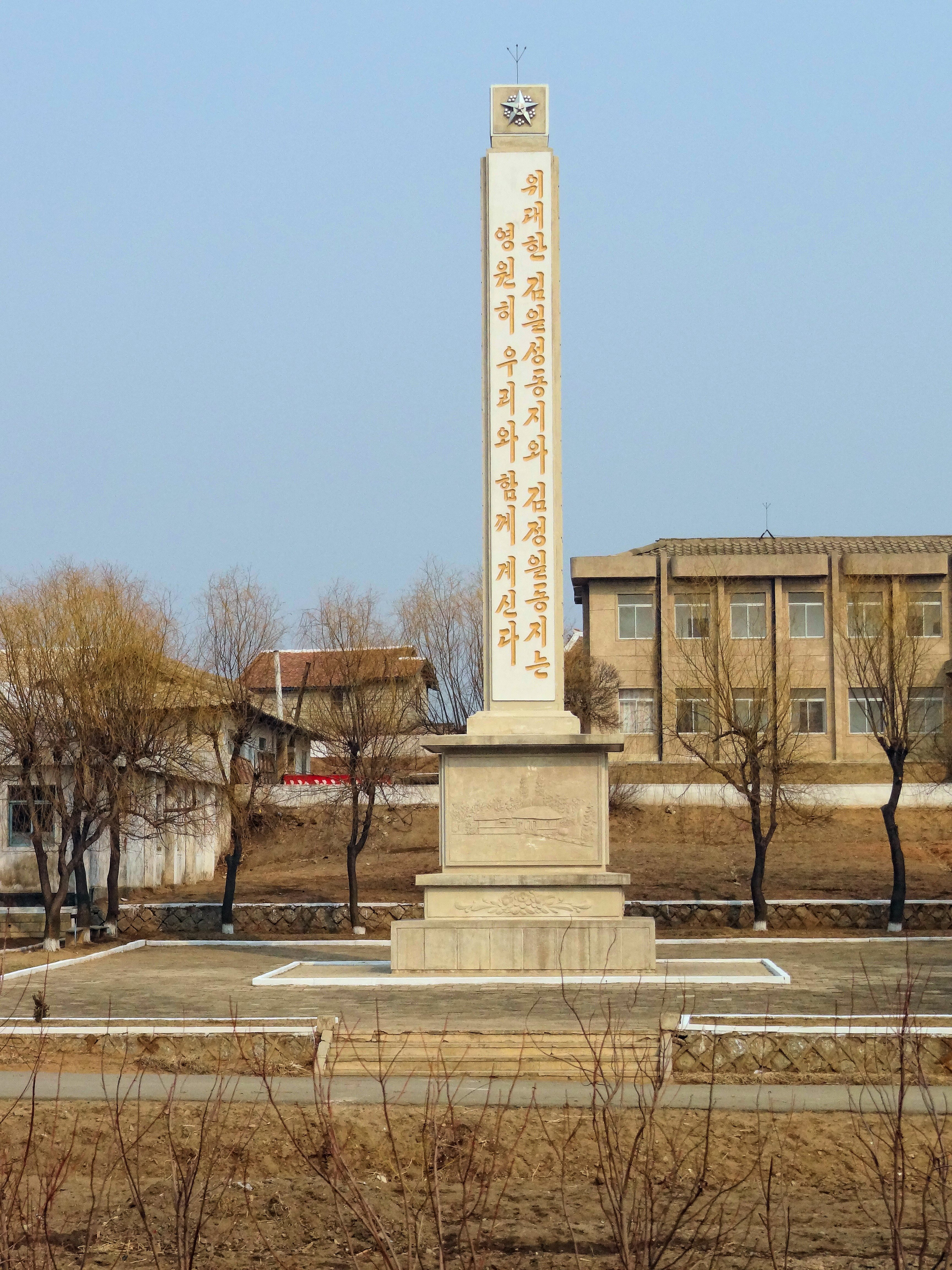 A "Tower of Eternal Life", a type of monument erected in great numbers all over North Korea following the death of Kim Il-sung in 1994.